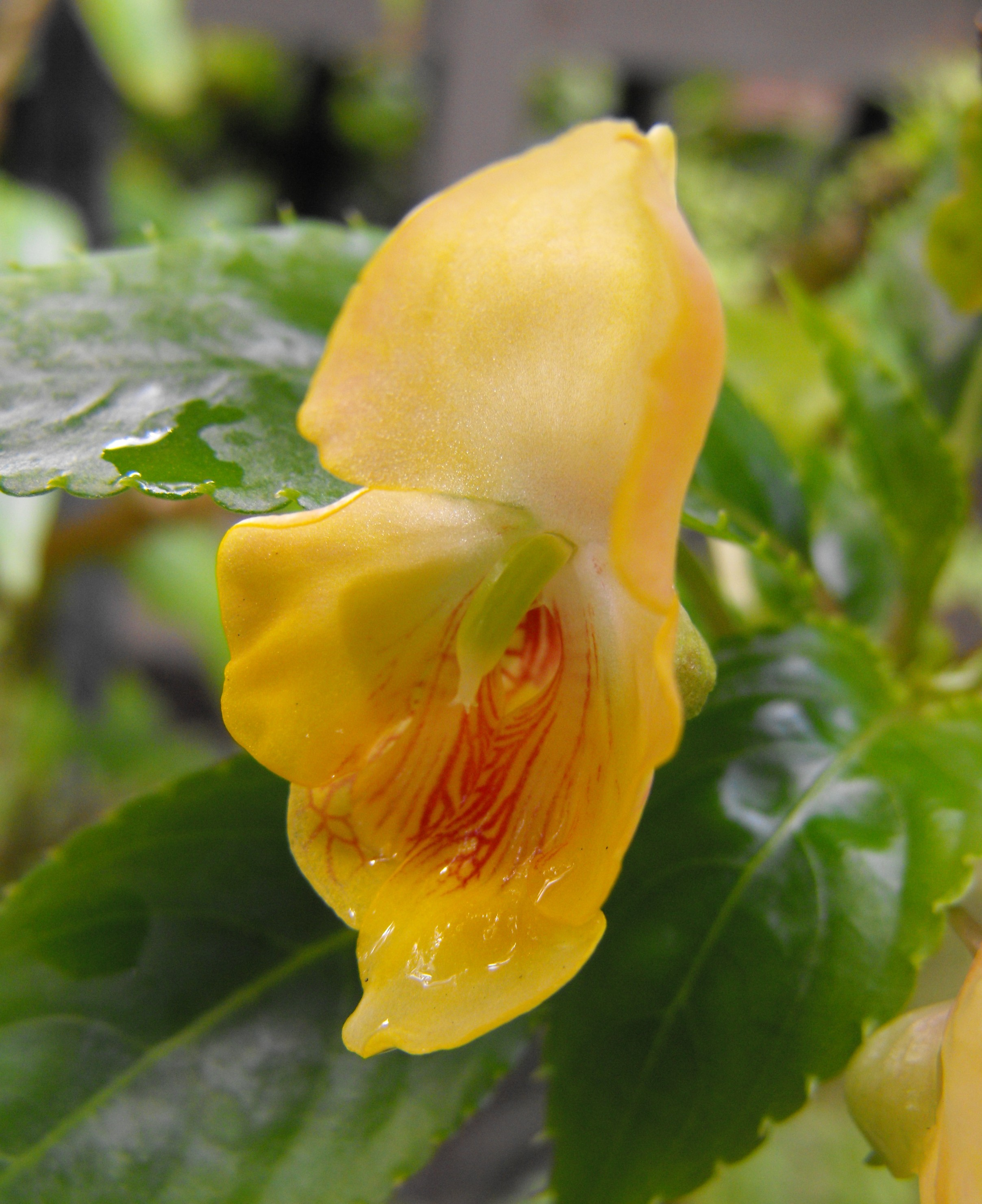 Impatiens auricoma in the Botanical Building at Balboa Park in San Diego, California, USA. Identified by sign.